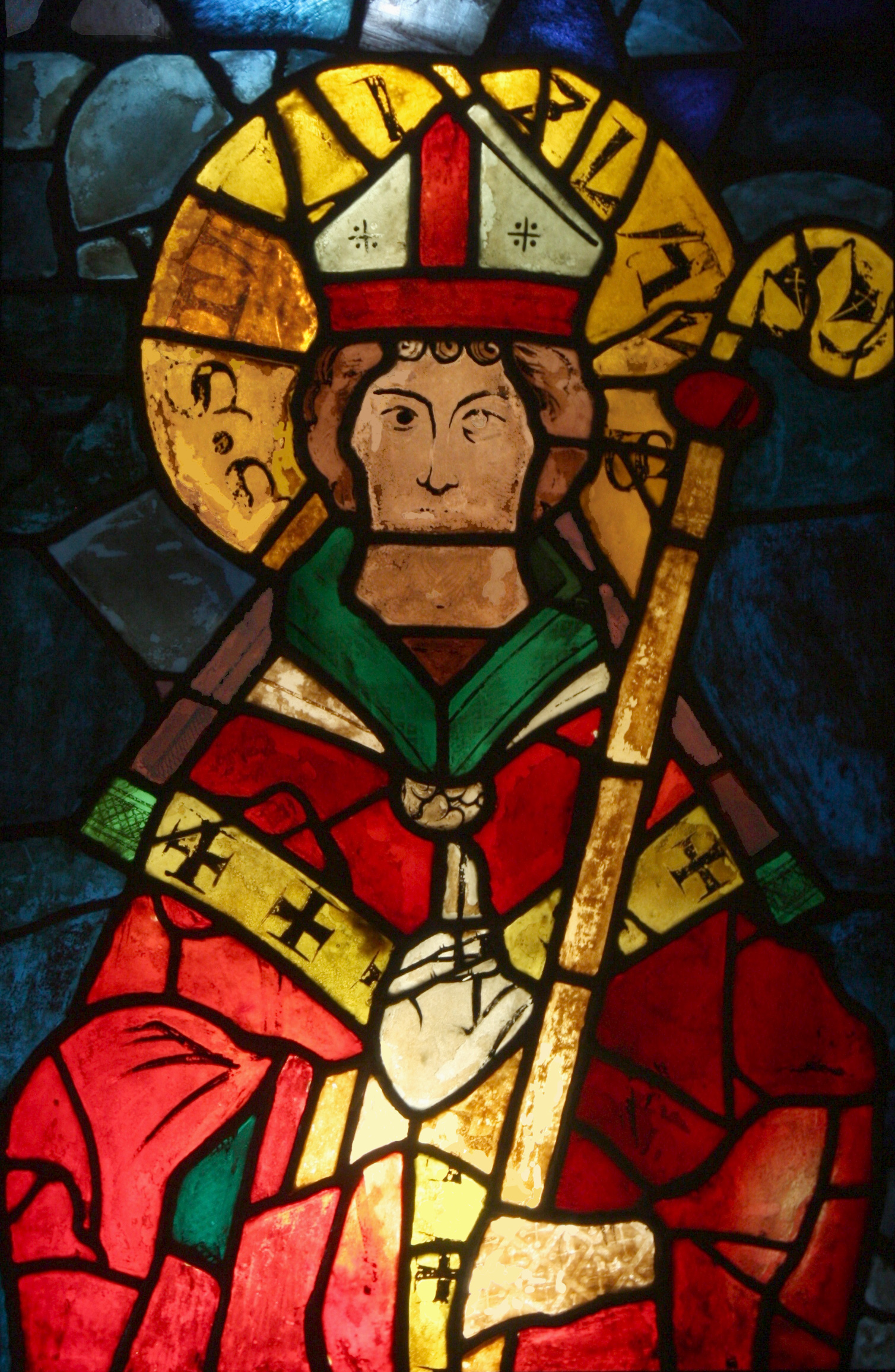 St Stanislaus. Gothic stained glass window from Dominican Monastery in Kraków. Nowadays in National Museum in Kraków.